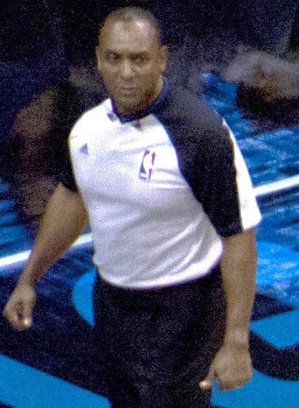 LeBron James attempts a free throw in a preseason NBA game. On the sidelines: Dwight Howard of the Orlando Magic and James's teammate Joel Anthony and referee Eddie Rush.